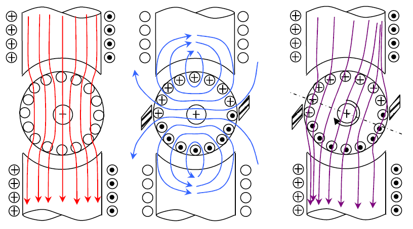 Magnetic field generated in the CC Machine with 1 polar couple